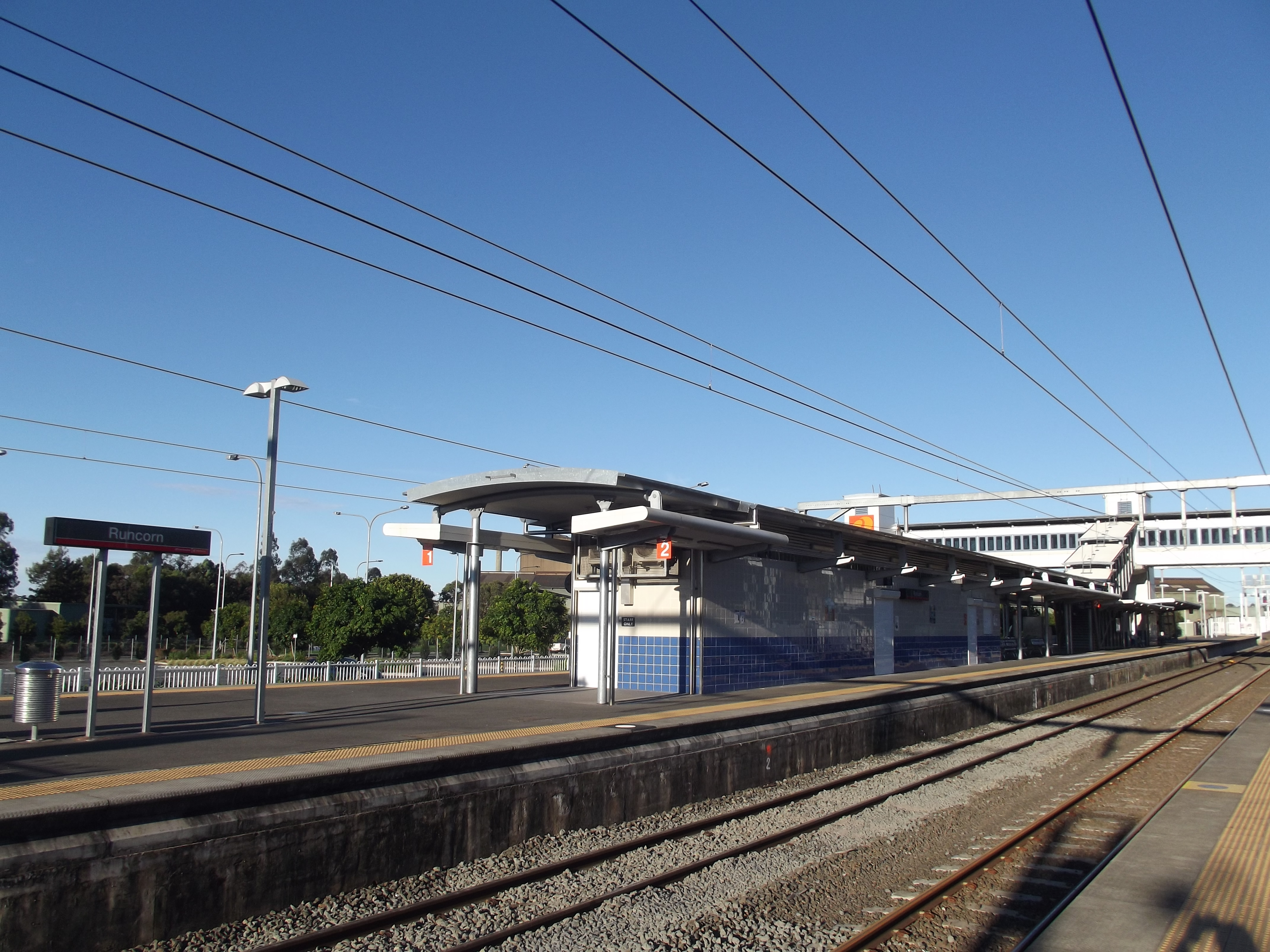 A photo of the Runcorn railway station, operated by TransLink, located in Brisbane, Queensland.